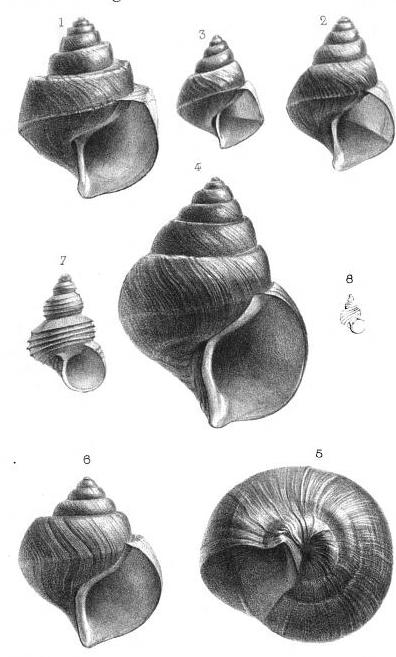 An additional selection of mollusks of the genus Neothauma described and drawn in 1888, found in Lake Tanganyika.